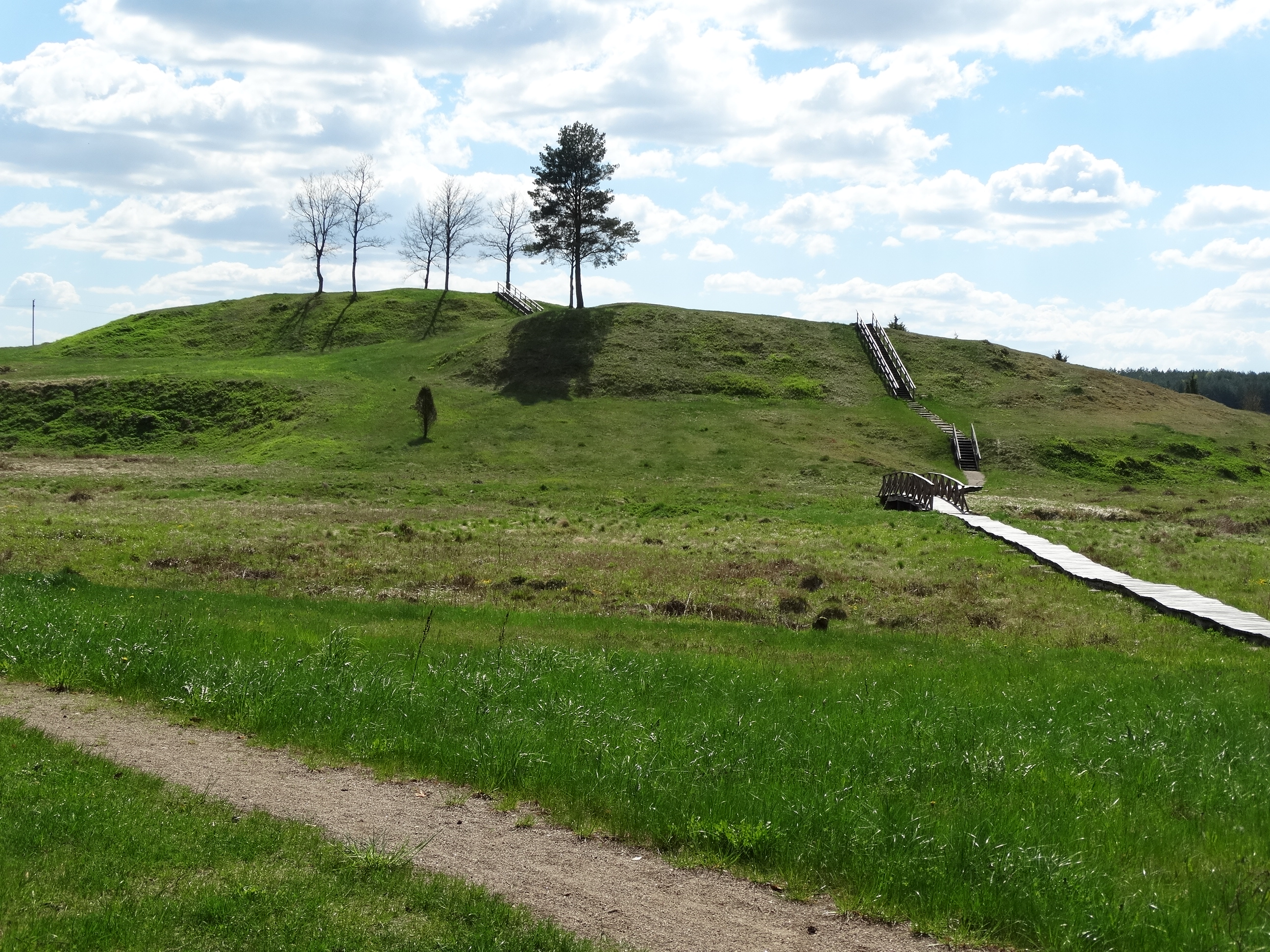 Hillfort in Bėčionys, Šalčininkai district, Lithuania